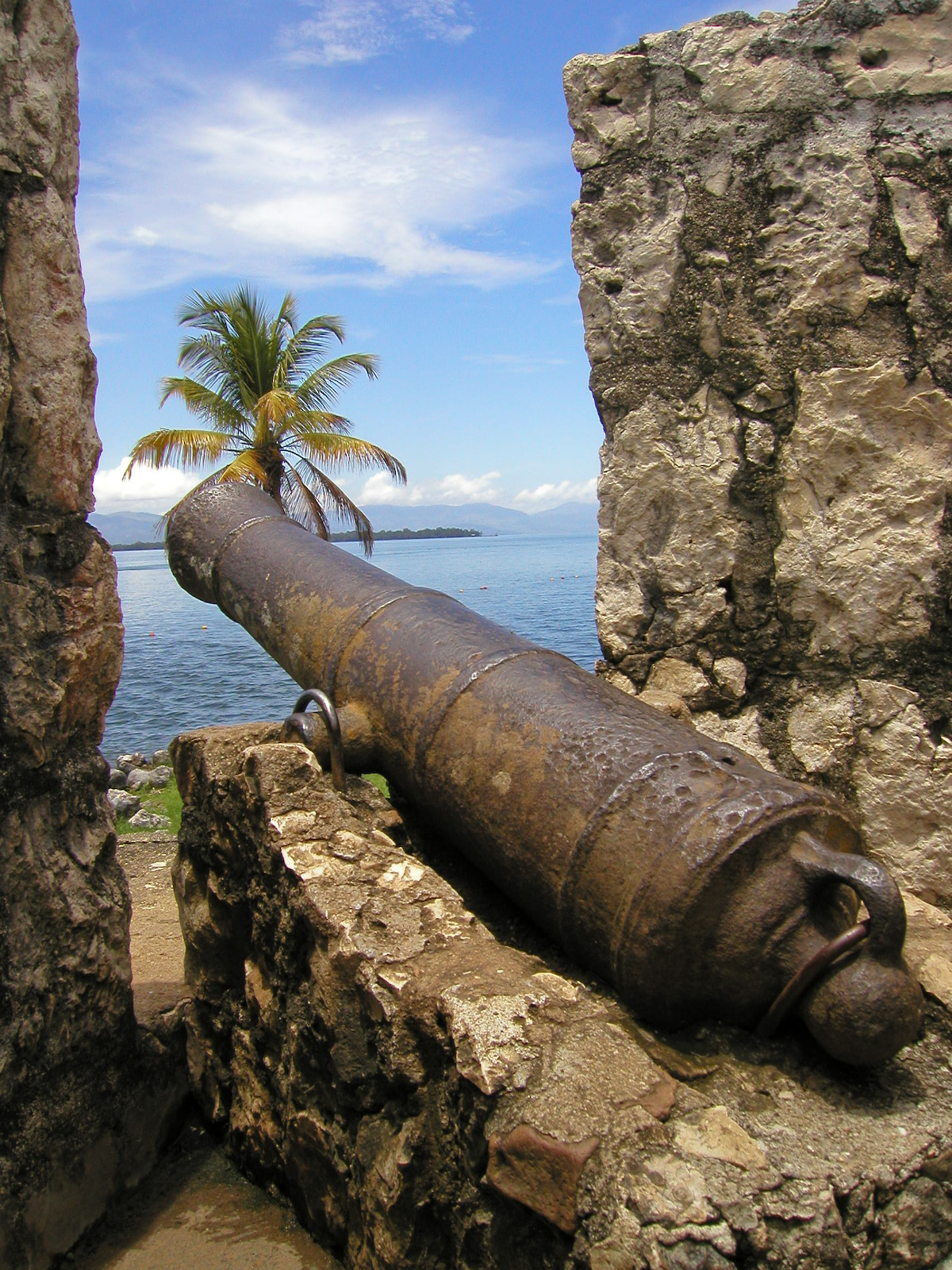 Castillo de San Felipe de Lara, Lake Izabal, Guatemala.